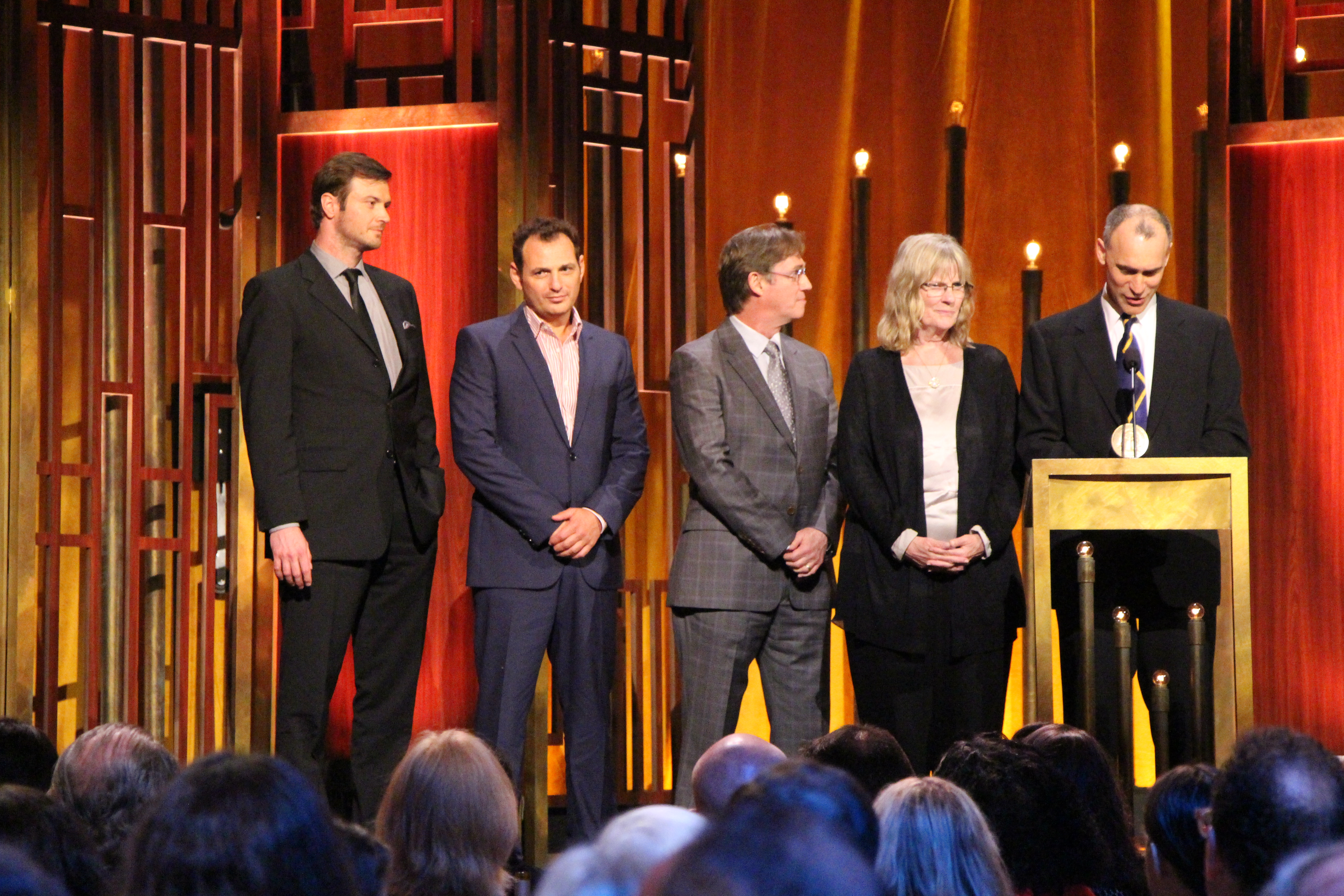 Joel Fields, writer for The Americans, accepts the series' Peabody on stage with (from left to right) Costa Ronin, Lev Gorn, Richard Thomas and Mary Rae Thewlis.